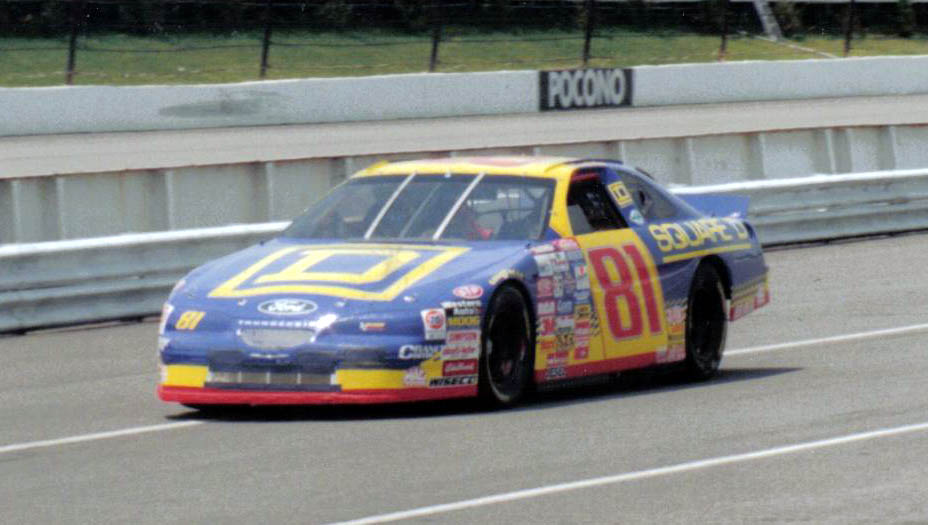 NASCAR driver Kenny Wallace at Pocono in 1997.